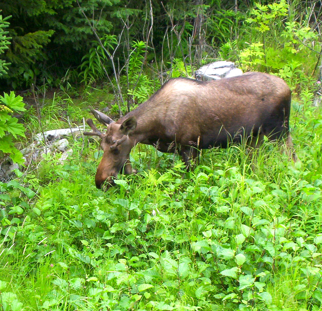 young bull moose with starter antlers browsing on young alder trees, Homer, Alaska